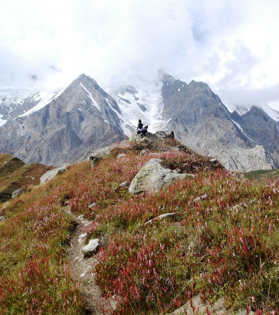 Nanga Parbat Raikhot Base Camp